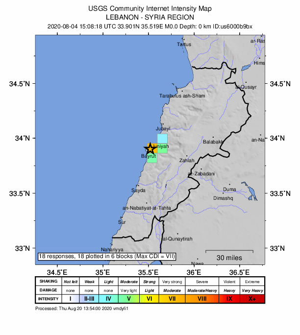 Intensity map from USGS for the magnitude 3.3 explosion (1km ENE of Beirut, Lebanon). The Beirut, Lebanon explosion was processed using the same basic methods that we use for regional earthquakes. To remove uncertainties in the location associated with seismic methods, we fix the location to the location seen in videos of the blast. Standard methods were used to calculate the magnitude. The reported magnitude is not directly comparable to an earthquake of similar size because the explosion occurred at the surface where seismic waves are not as efficiently generated.